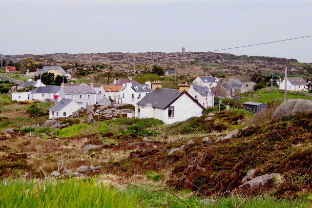 Kincasslagh - Buildings & houses in the village area View shown is to the north from a burned-out house south of the Kincasslagh village area and west of R259, which passes through the village.